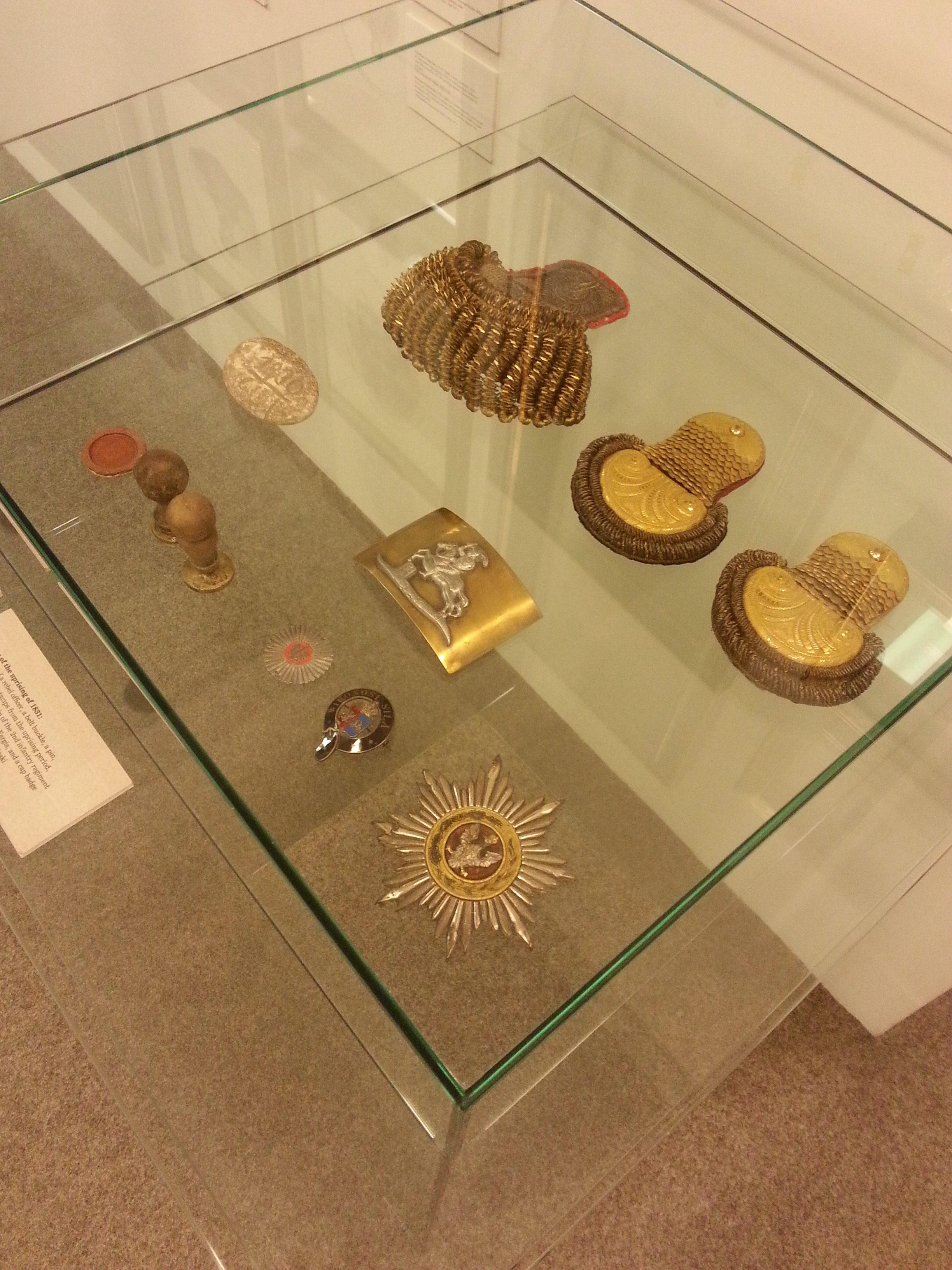 Relics of the uprising of 1831. Epaulettes of a rebel officer, a belt buckle, a pin, a souvenir stone, stamps from the uprising period, a cap badge of the captain of the 2nd infantry regiment of the Polish army Konstanty Fergis, and a cap badge of the Polish general Henryk Dembinski.